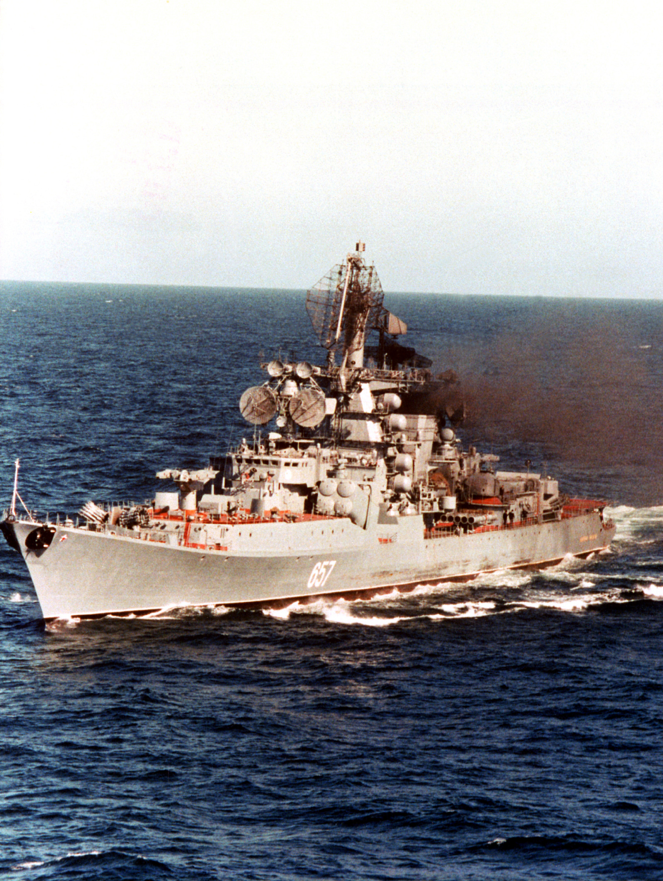 A port bow view of the Soviet KRESTA II class guided missile cruiser Admiral Yumashev underway.